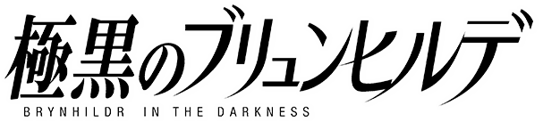 Brynhildr in the Darkness logo